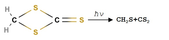 Methylene trithiocarbonate photolysis